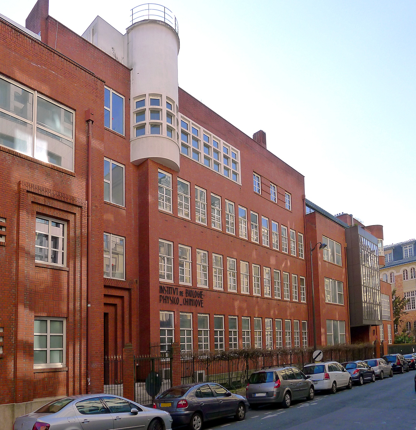 Pierre-et-Marie-Curie street - Paris